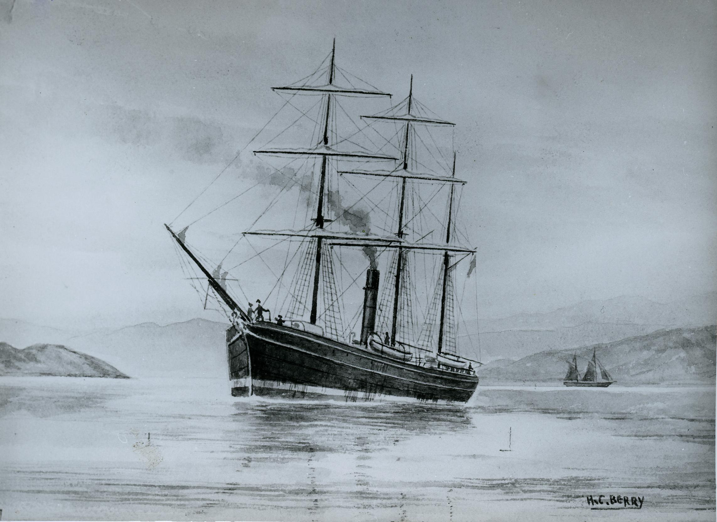 On 29 June 1862 the steamer White Swan wrecked off the Wairarapapa coast. The White Swan was en route from Auckland to Wellington, and was intended to arrive in time for the first session of Parliament ever to be held in Wellington. On board the steamer were many significant political figures of the day, including the Premier, William Fox, and several Cabinet Ministers, their wives, and government officials. During the morning of the 29th, the White Swan struck rocks south of Castlepoint. Captain Allen Harper deliberately ran the ship aground to save the lives of those on board, and all passengers made it ashore easily. Parliament was eventually opened in Wellington on 14 July. The most significant loss resulting from the wreck of the White Swan, however, was that of the government records that were on board at the time. The passengers aboard the ship had been travelling with many official papers and books necessary for the opening of Parliament. A great number of these were lost, despite efforts to float the cases containing the papers ashore. Many records from this time in Archives NZ’s collection are reproductions of originals lost on the White Swan. This photograph of the White Swan comes from the collection extracted from the holdings of New Zealand Post Archives, which is part of the Post Office Museum and Archives. Archives reference: AAME 8106 W5603 115/ 11/8/138 For updates on our On This Day series and news from Archives New Zealand, follow us on Twitter